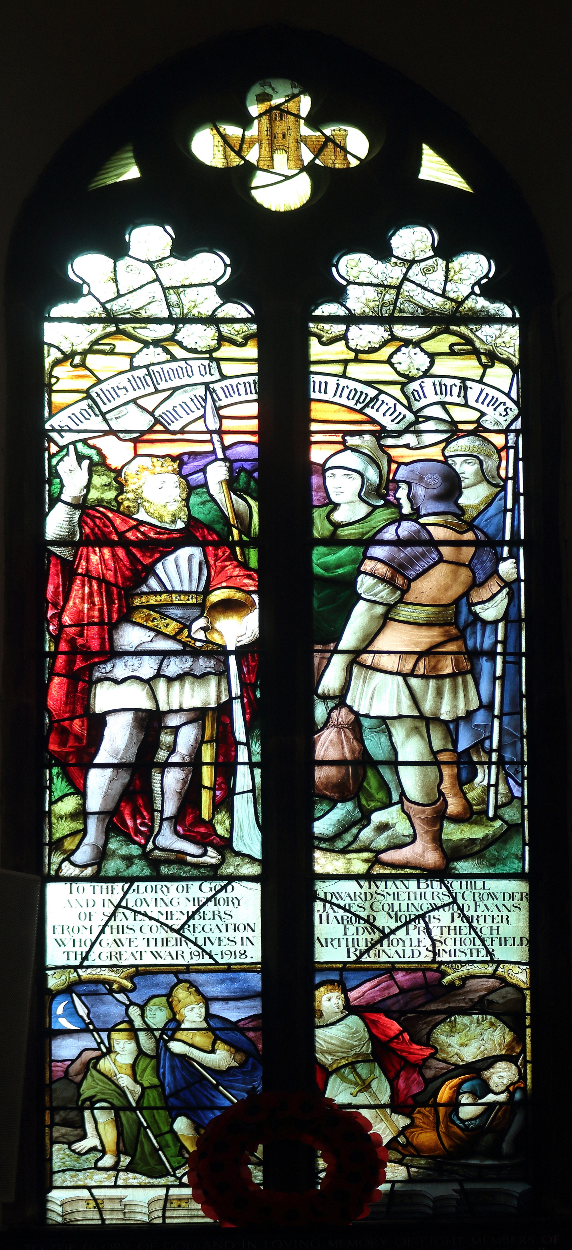 Memorial window in the south aisle of West Kirby Methodist Church to those whose died in the 1914 - 18 war. By Bacon Brothers, it depicts King David and the three mighty men (2 Samuel 23:17).